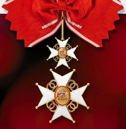 Latvian order Cross of Acknowledgement (Atzinības krusts)